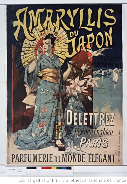 Amaryllis du Japon, parfum nouveau, Delettrez Paris, poster from L. Revon, printer in Paris.